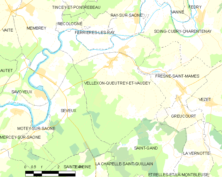 Map of French municipality